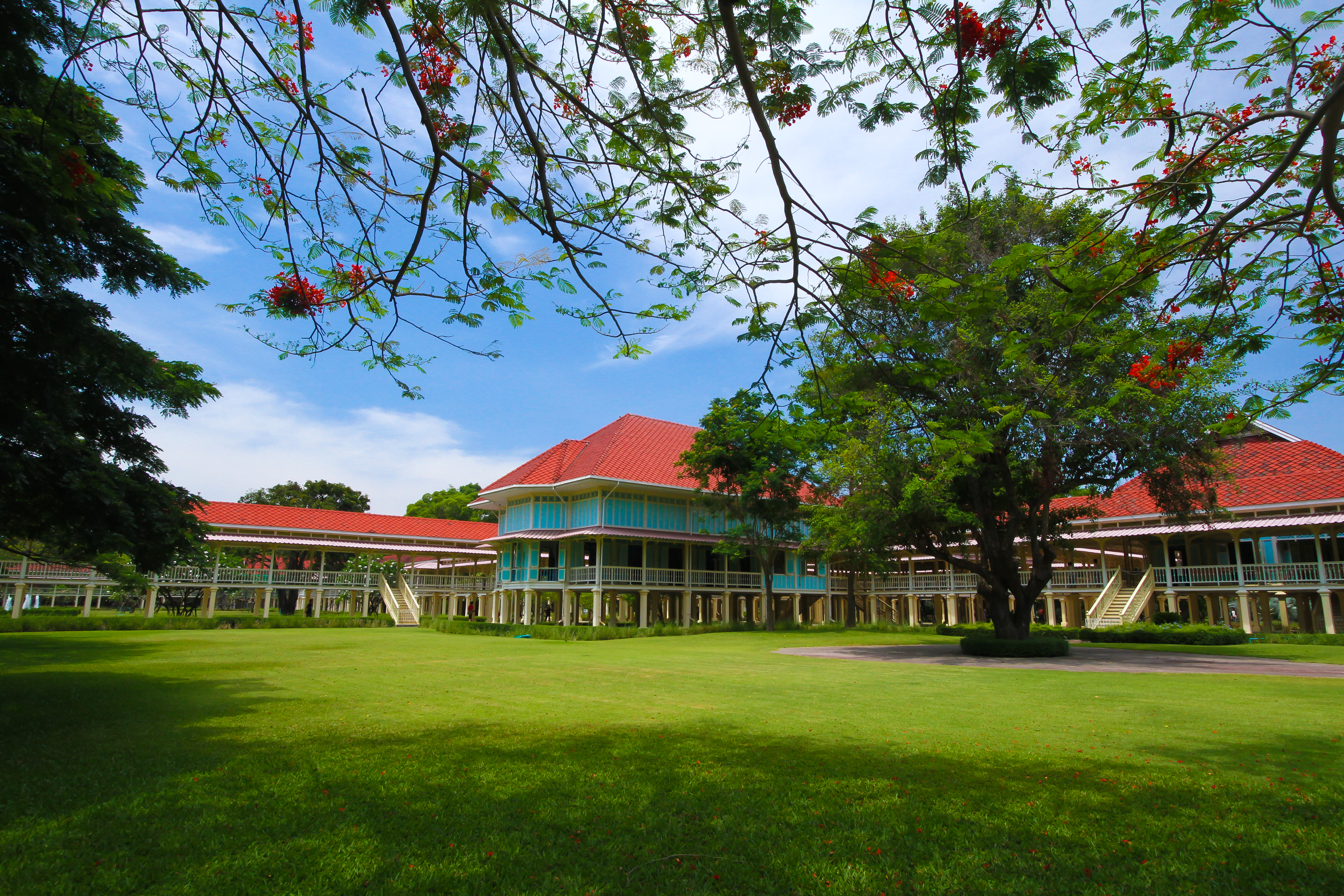 Mrigadayavan Palace, Cha-am Subdistrict, Cha-am District, Phetchaburi Province